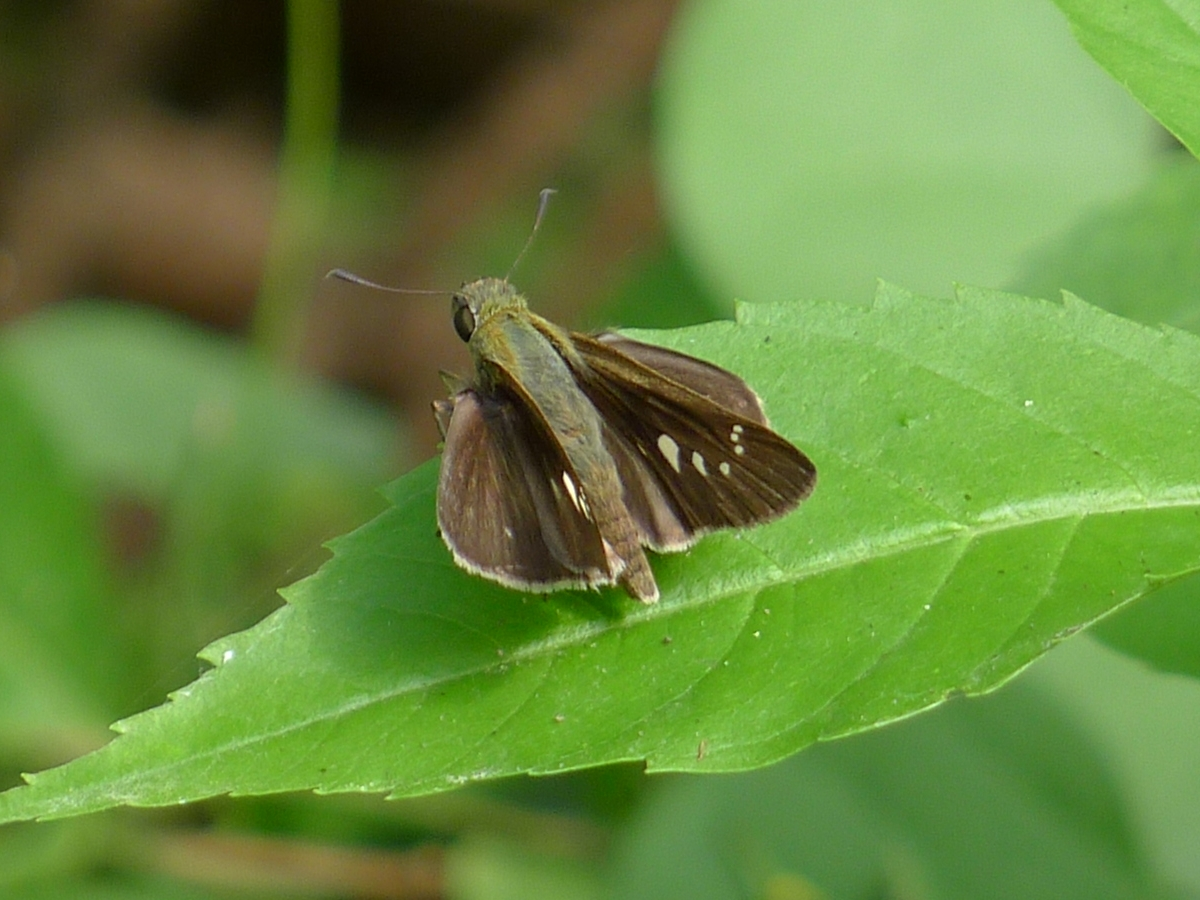 Borbo cinnara, or Rice swift butterfly. Poon Saan, Christmas Island, Australia, April 2011.